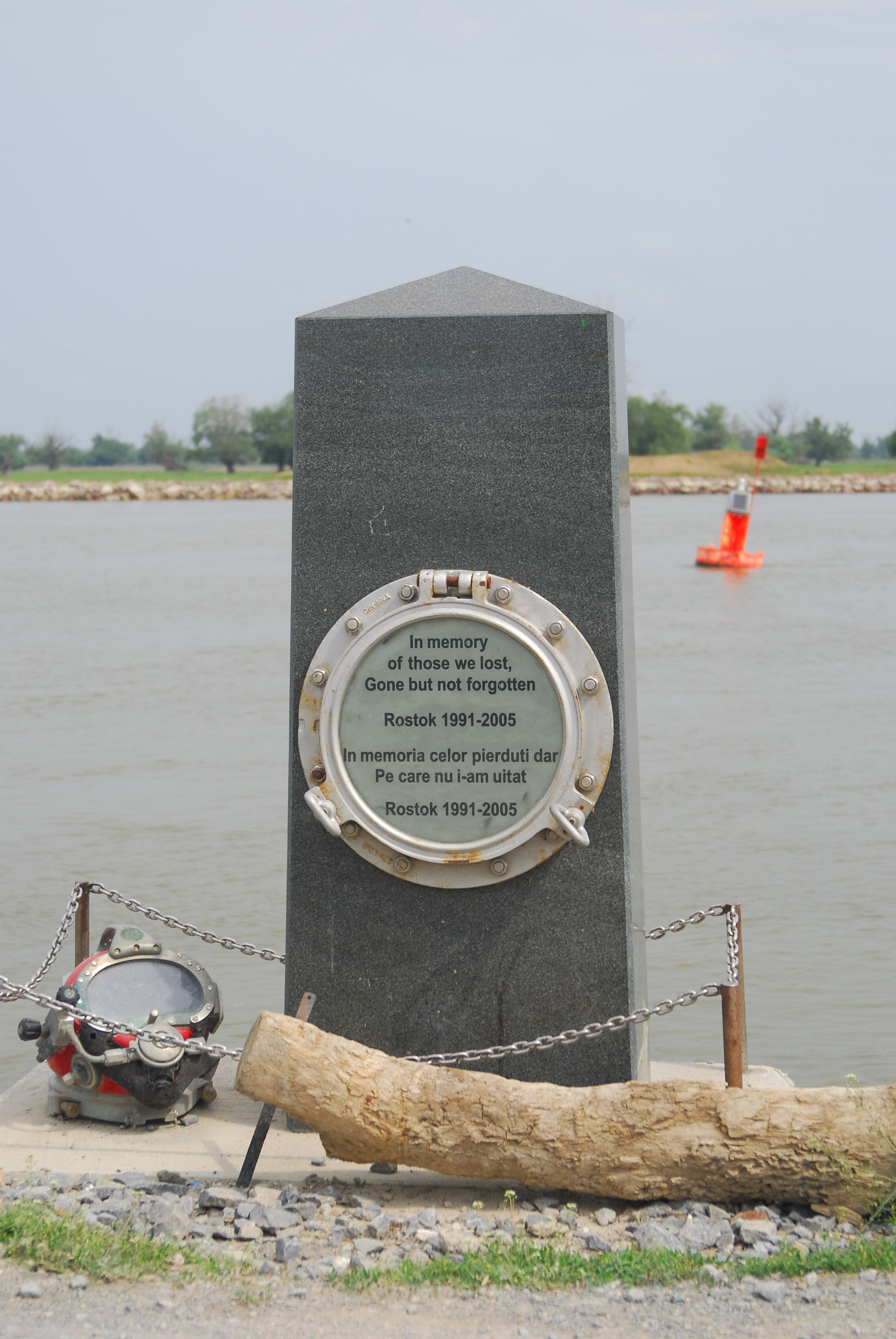 Rostock Memorial in Partizani village, Tulcea county